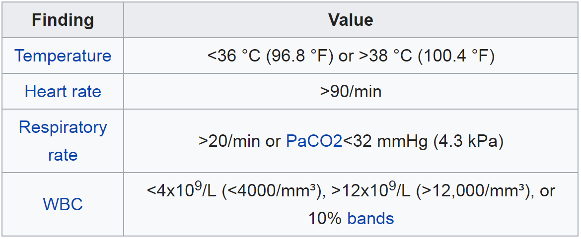 Diagnostic criteria of systemic inflammatory response syndrome (SIRS) /sepsis